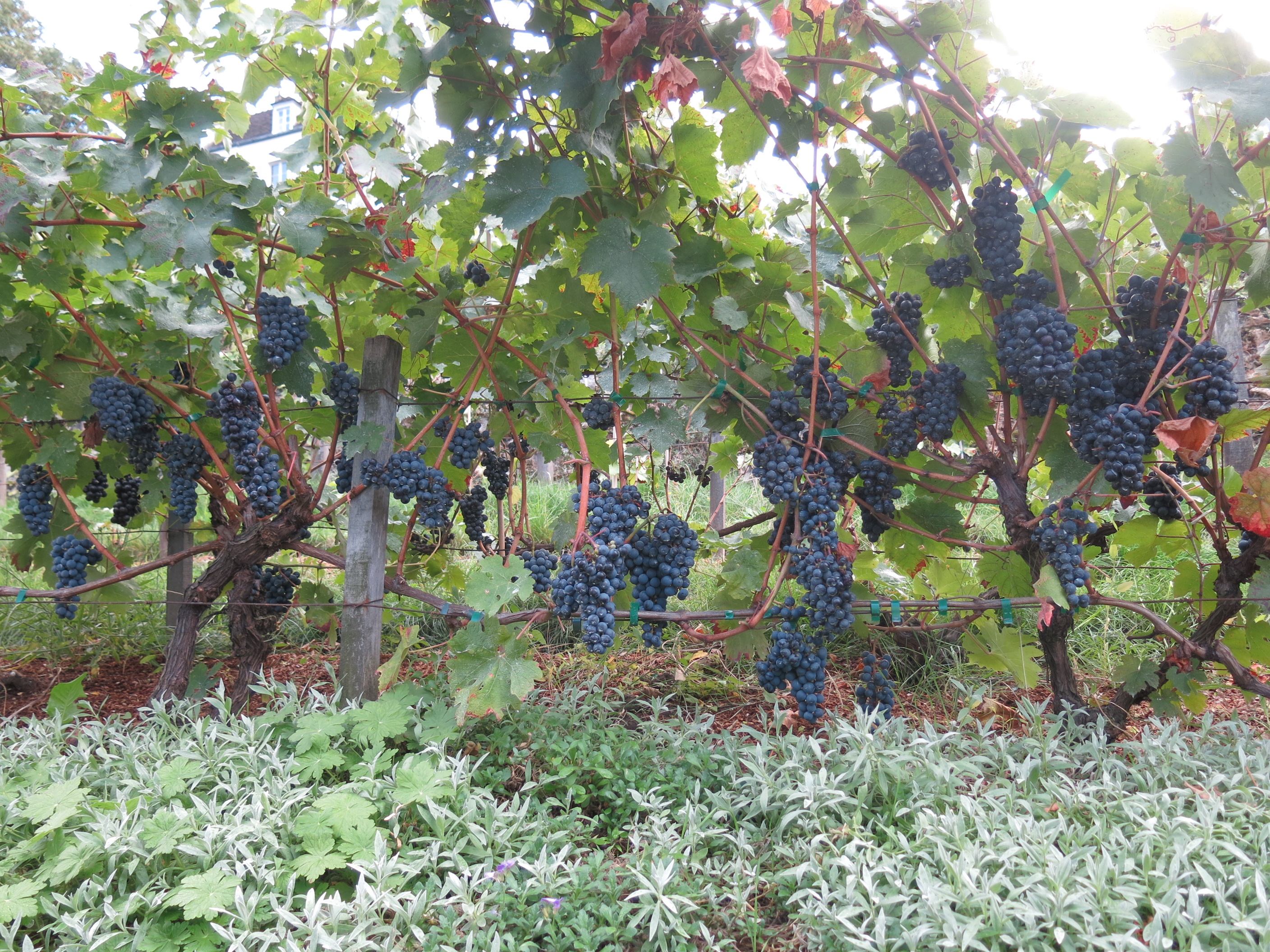 Many grapes on the vineyard of Montmartre before the vintage of 2015 (Paris, France).